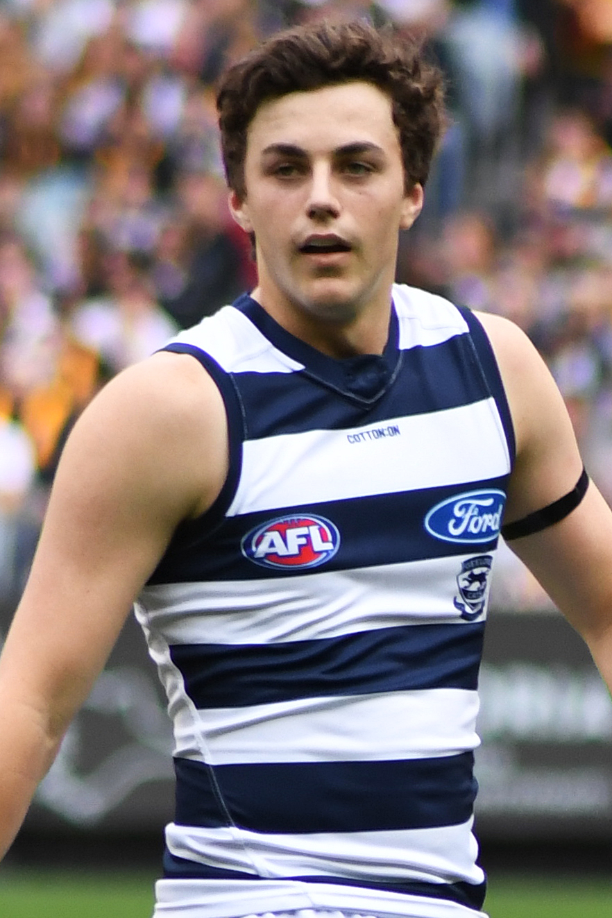 Jordan Clark of Geelong during the 2019 AFL round 5 match between Hawthorn and Geelong at the Melbourne Cricket Ground on Monday, 22 April 2019 in Melbourne, Victoria.